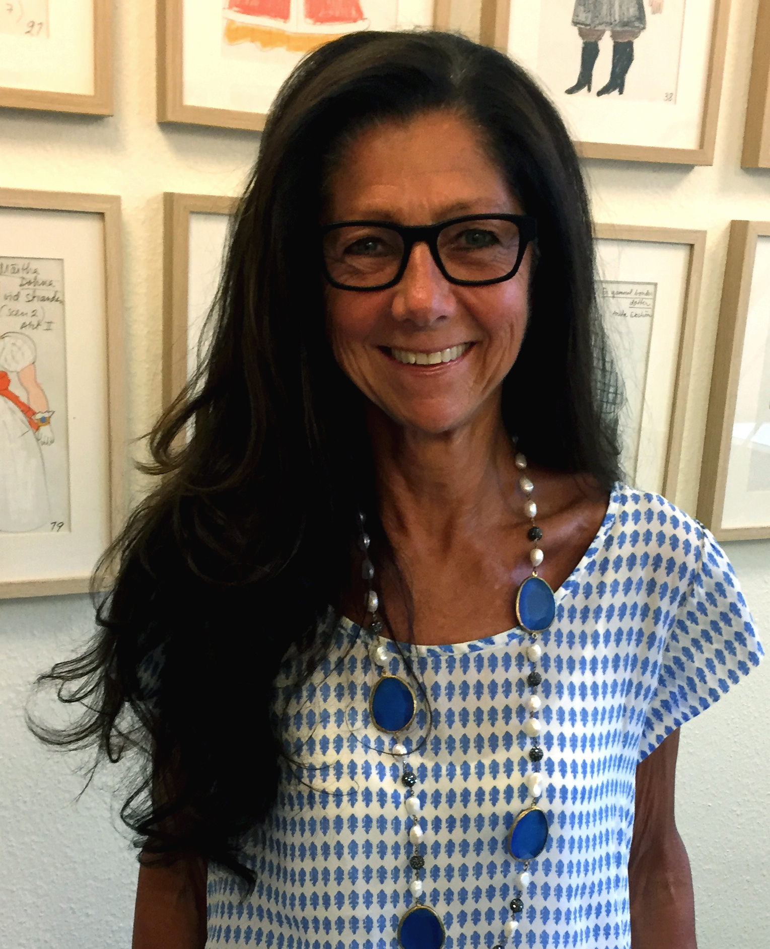 Lena Ahlström 2017